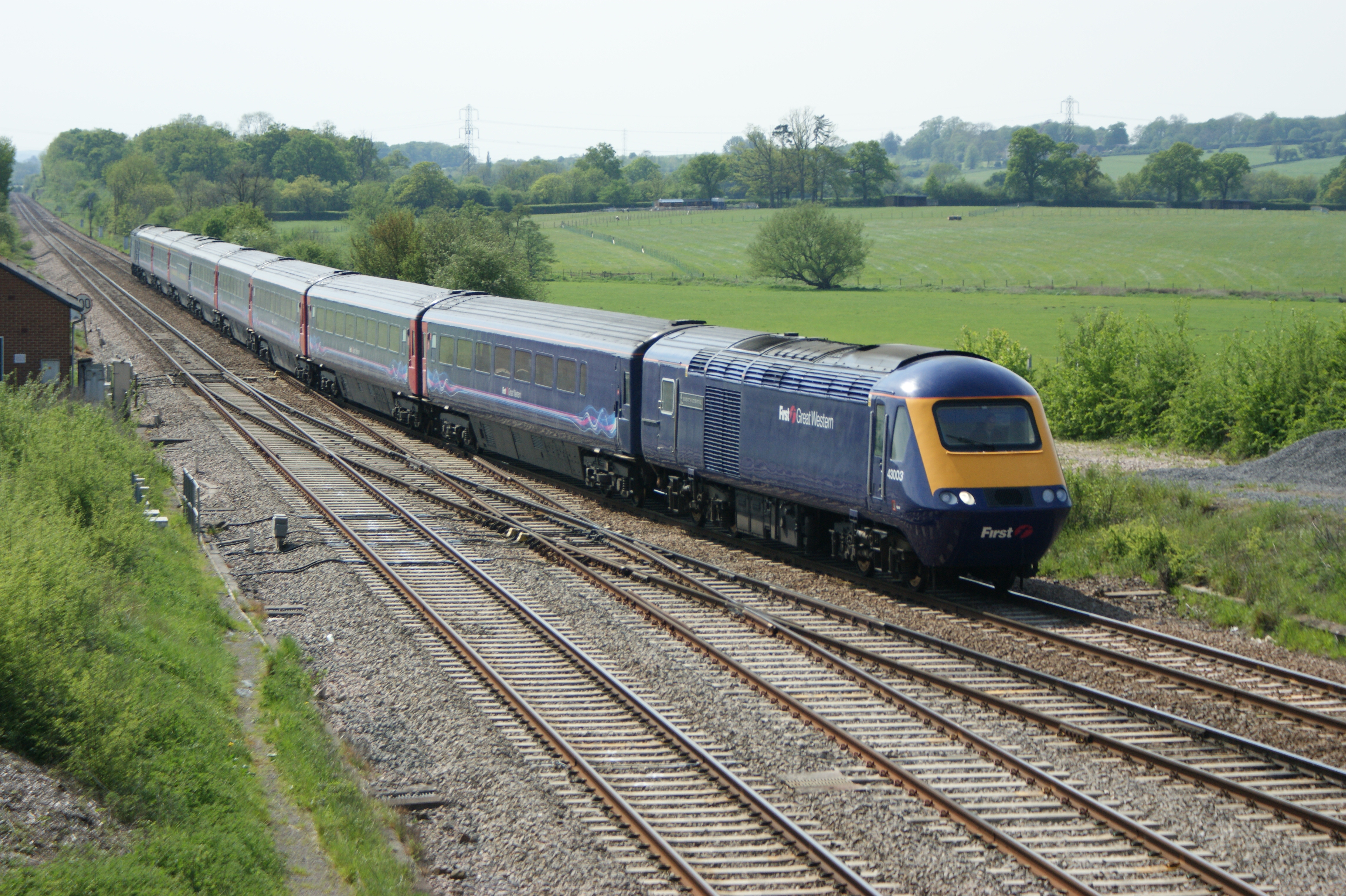 BR Class 43/0 (MTU) HST 2,250 hp Bo-Bo 43 003 of FGW in plain purple-blue livery approaching Fairwood Jnct and heading for Westbury station with a Plymouth -Paddington service, 5/08.